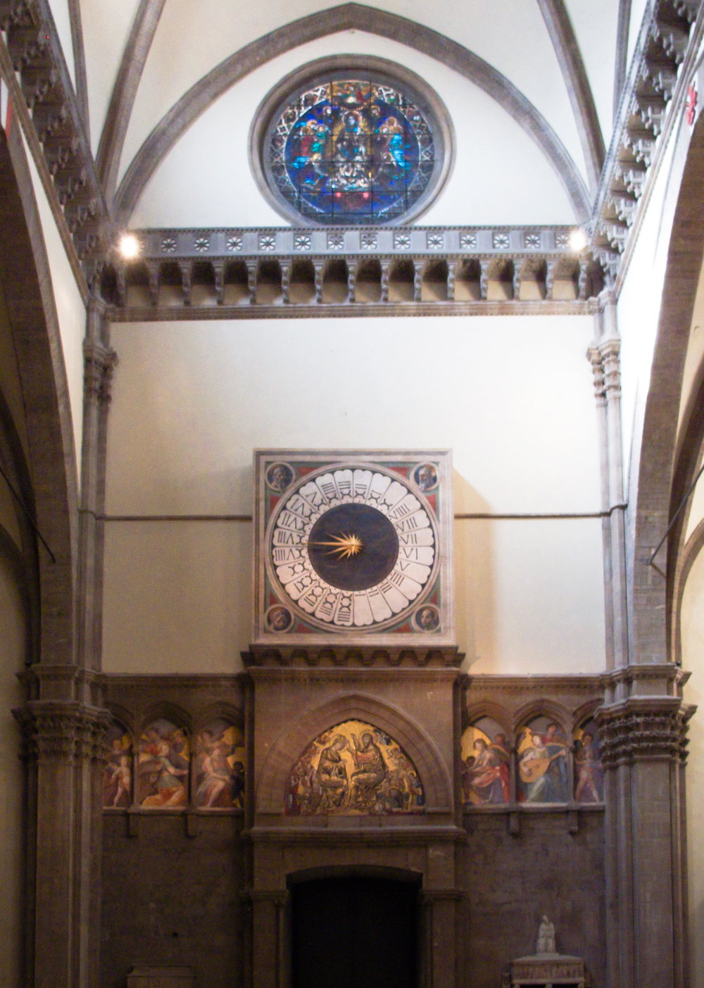 Florence Cathedral Clock.